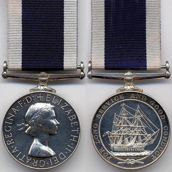 The Queen Elizabeth II version of the Naval Long Service and Good Conduct Medal (1848)